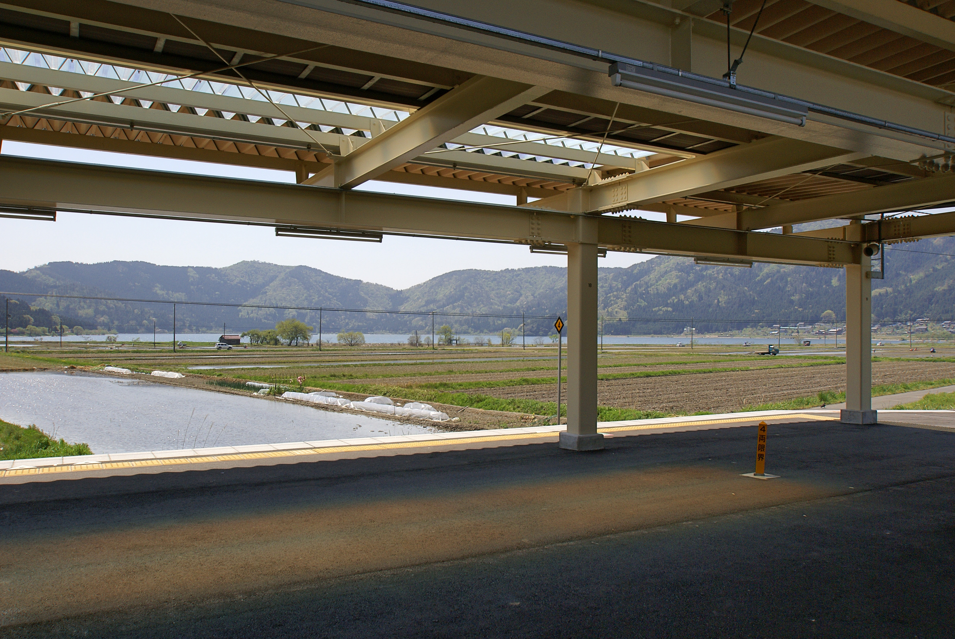 Yogo Station in Yogo, Shiga, Japan